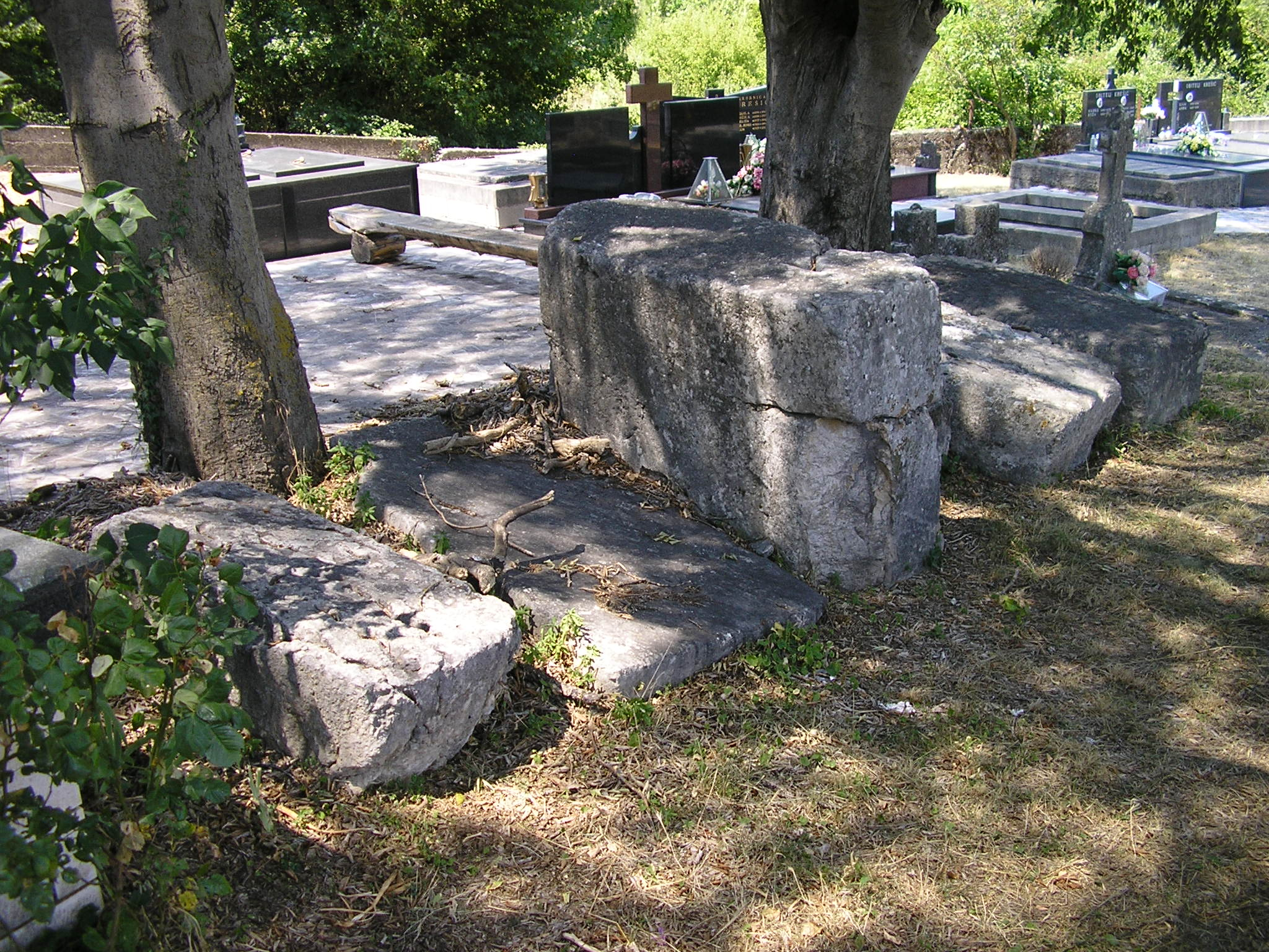 Stećci at Sjekose cemetery